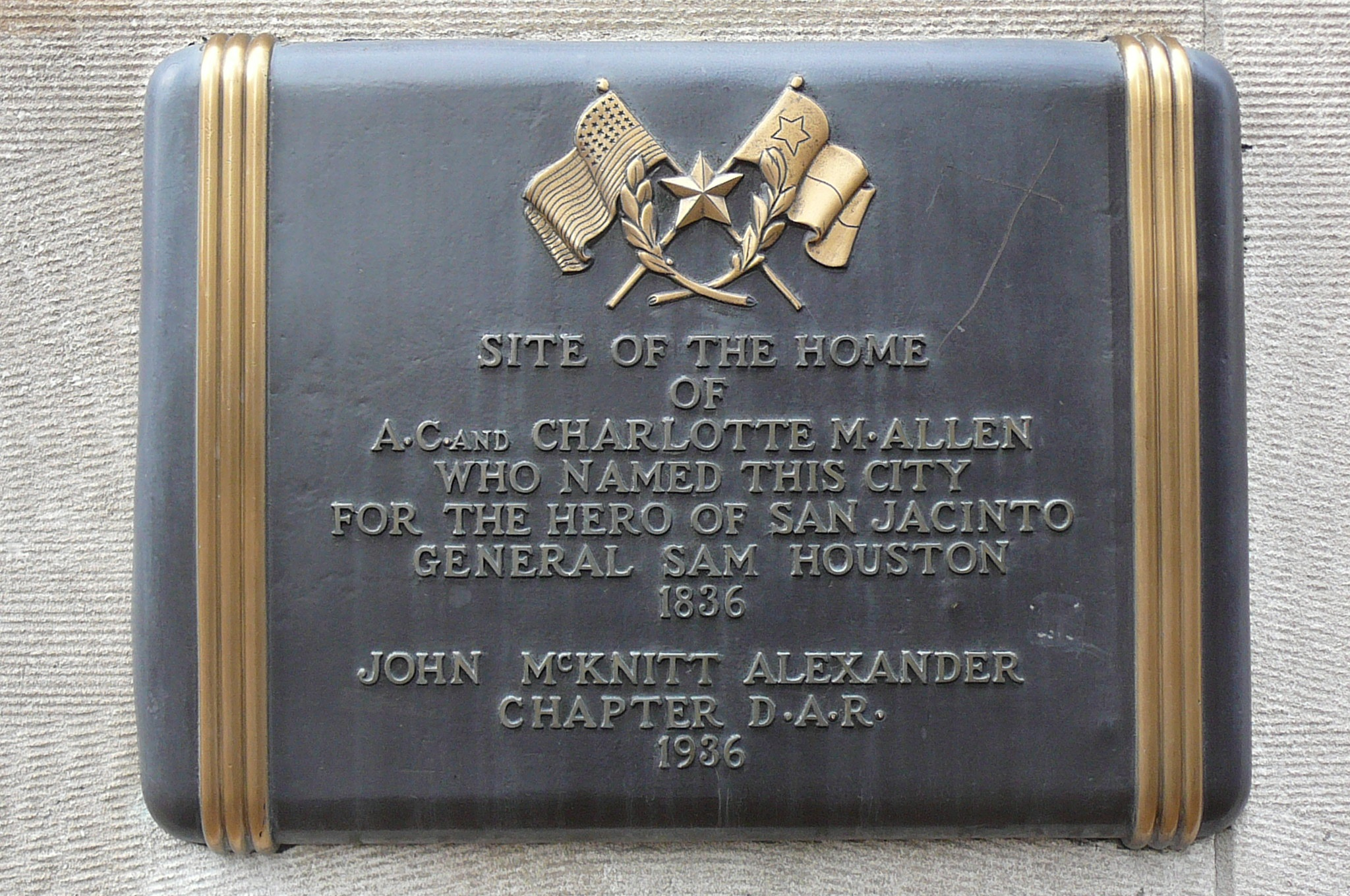 Home site of AC and Charlotte Allen, currently the Gulf Building